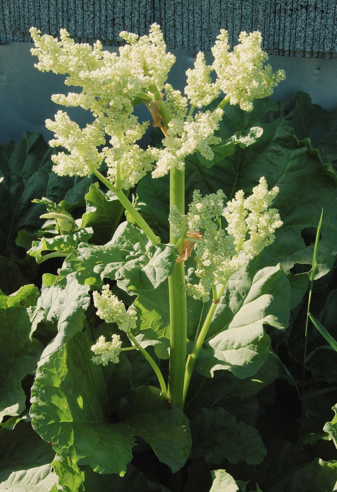 Blooming at the abandoned house on Schuster Road Rhubarb has been used for medical purposes by the Chinese for thousands of years and appears in The Divine Farmer's Herb-Root Classic which is traditionally attributed to Shen Nung, the Yan Emperor, but is thought to have been compiled in about 2700 BC.